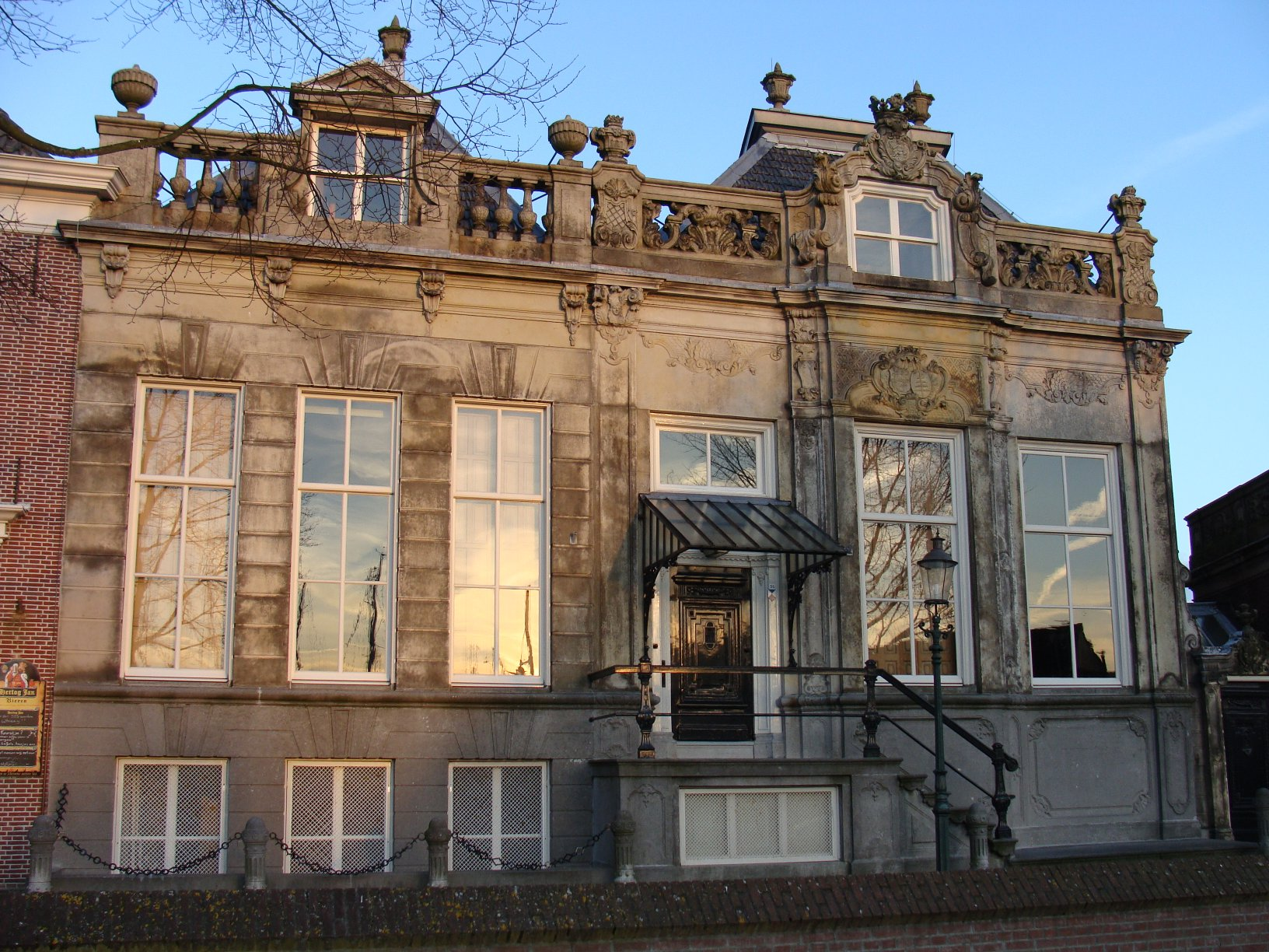 The Snouck van Loosenhuis in Enkhuizen, former residence of the Snouck van Loosen family